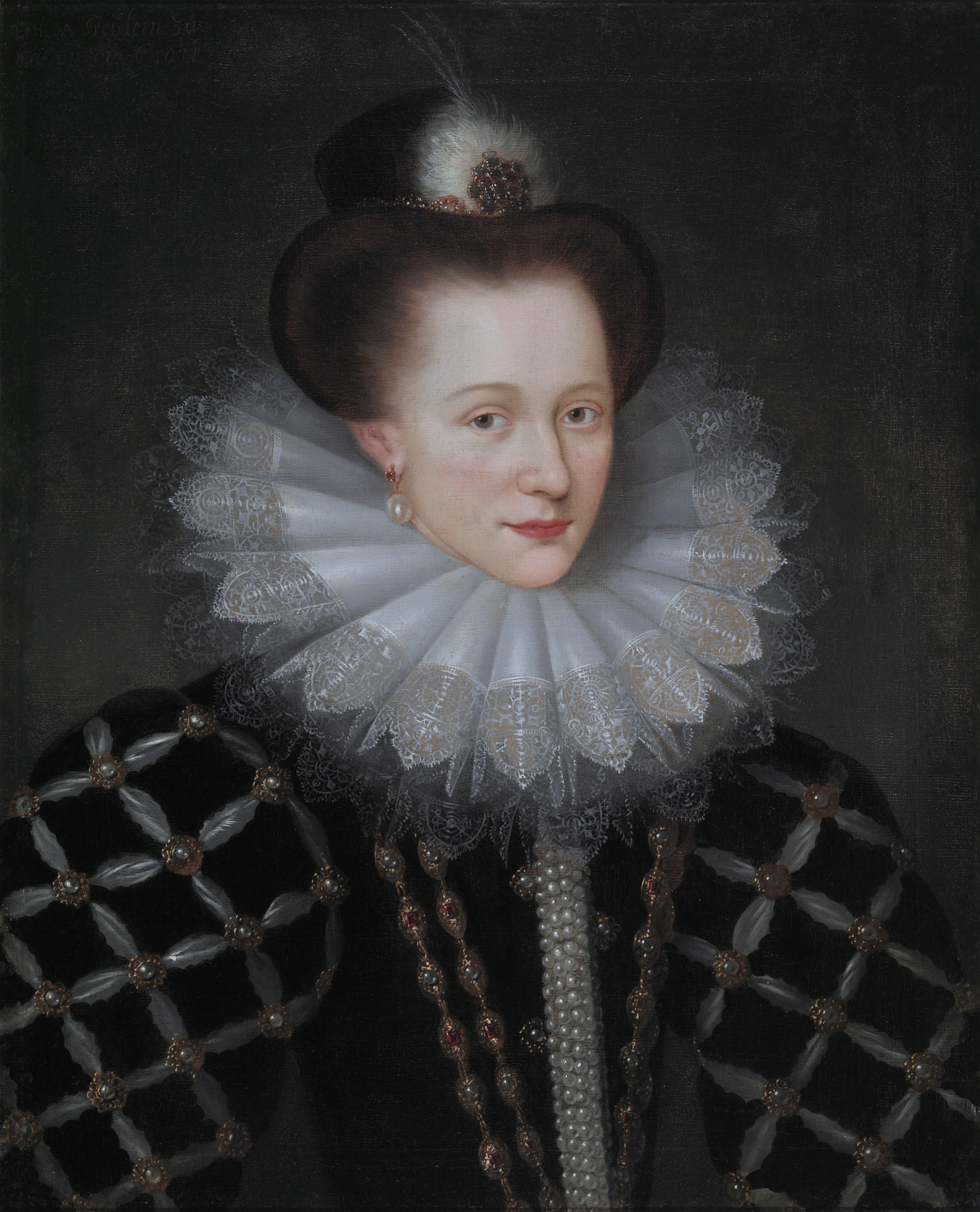 Emilia van Nassau (1569-1629) oil on canvas 73 x 59 cm inscribed t.l.: AEMILIA FREULEIN ZU NASSAU UND ORANIEN 1567 - 1605